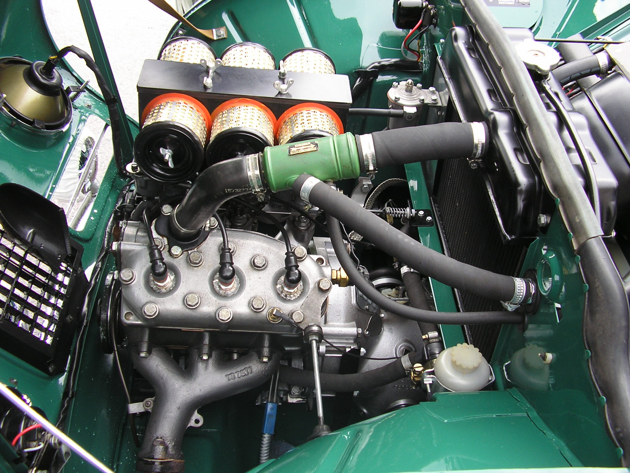 A tuned three cylinder two-stroke engine at the International SAAB Club Meeting 2006. I think it uses tripple Lancia carburettors.